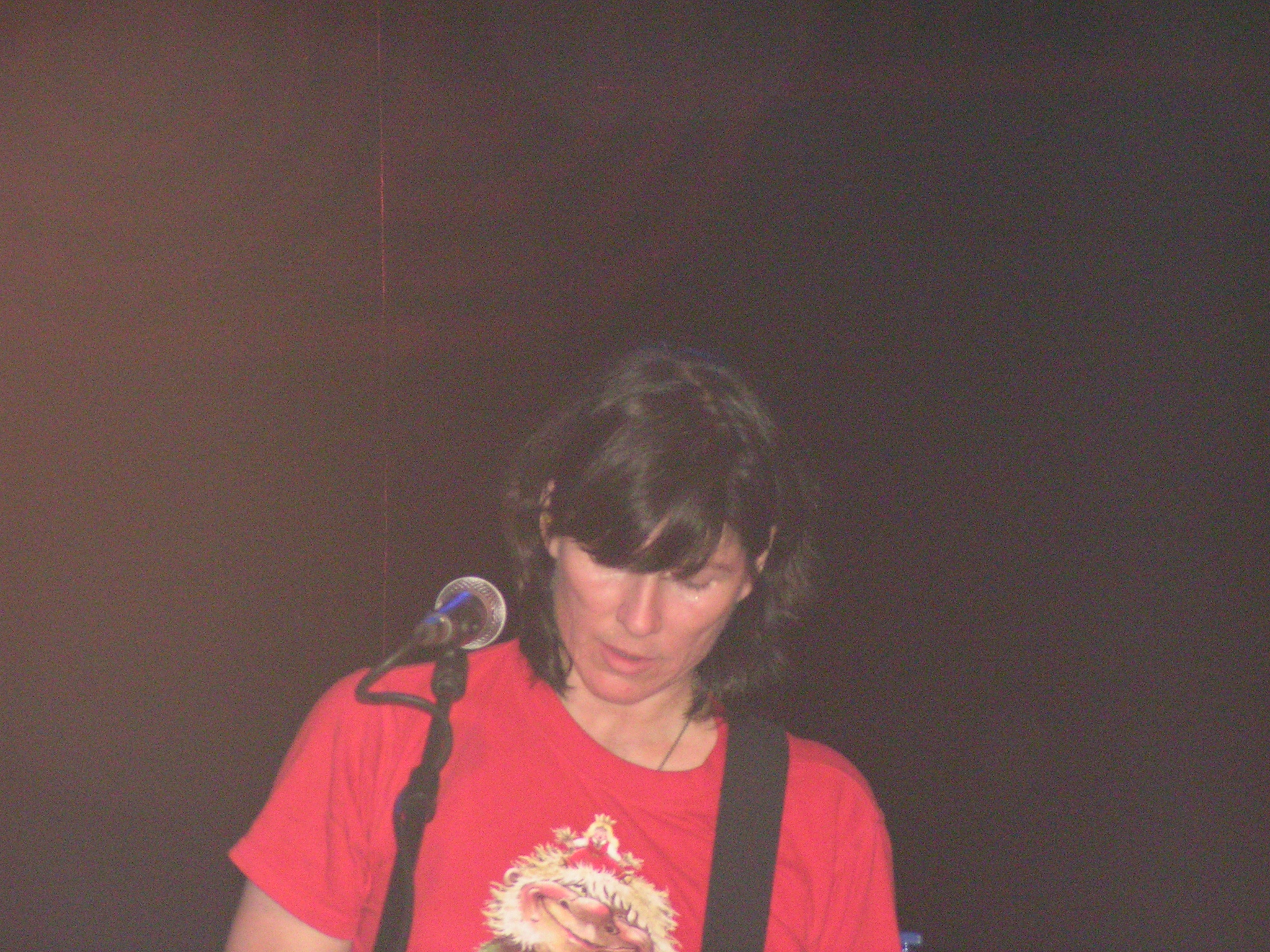 Kelley Deal, The Breeders live in the Zappa club, Tel Aviv, Israel, August 22, 2008